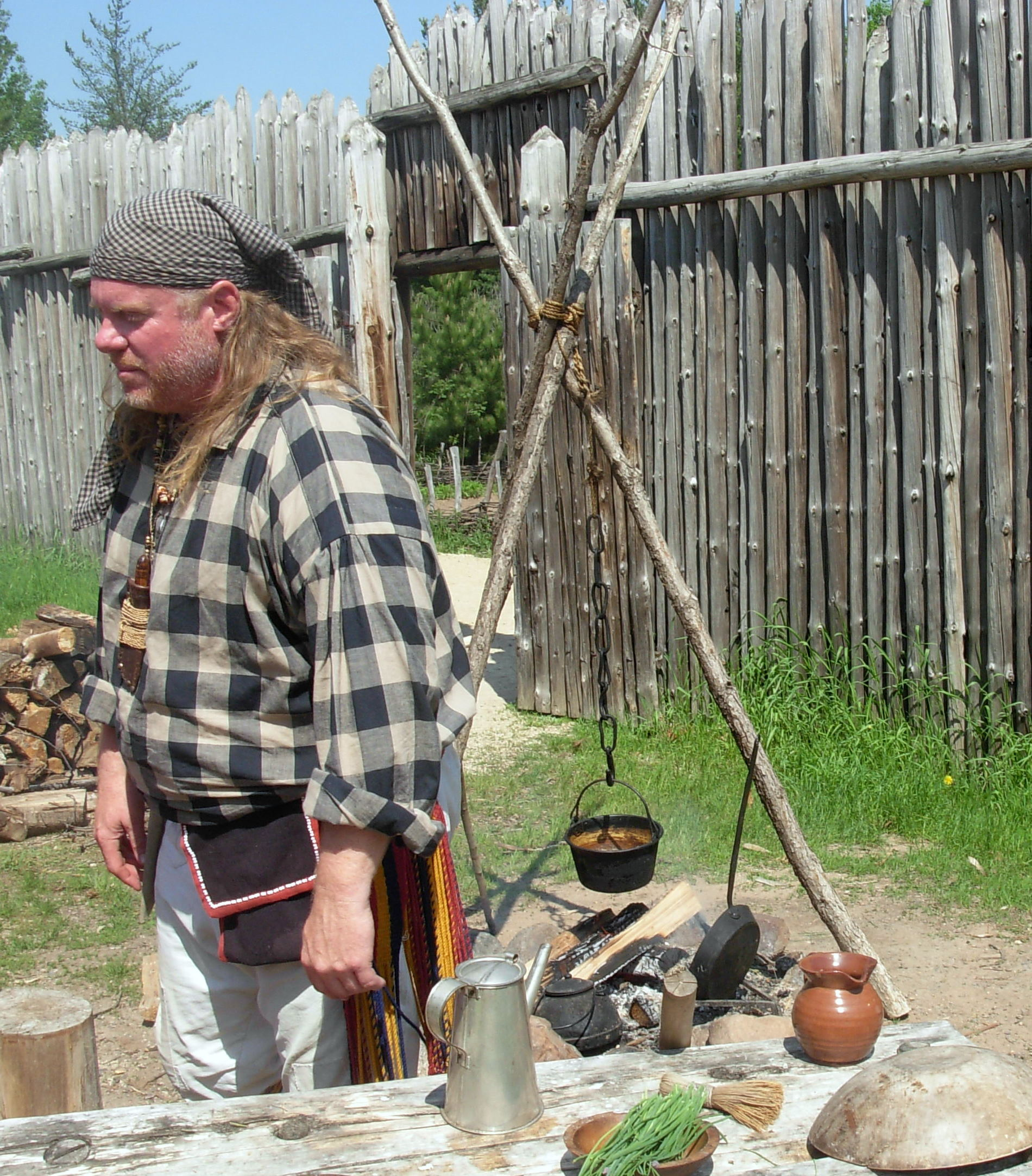 Actor in historical costume of a voyageur at the North West Company Fur Post State Historic Site near Pine City, Minnesota